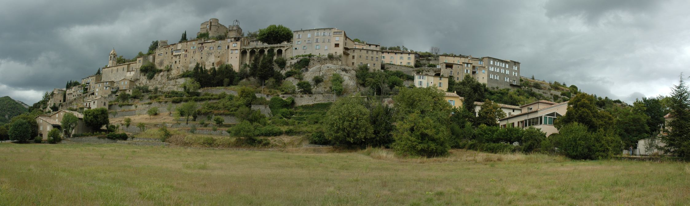 Panoramic view of the town Montbrun-les-bains, in the south of France.